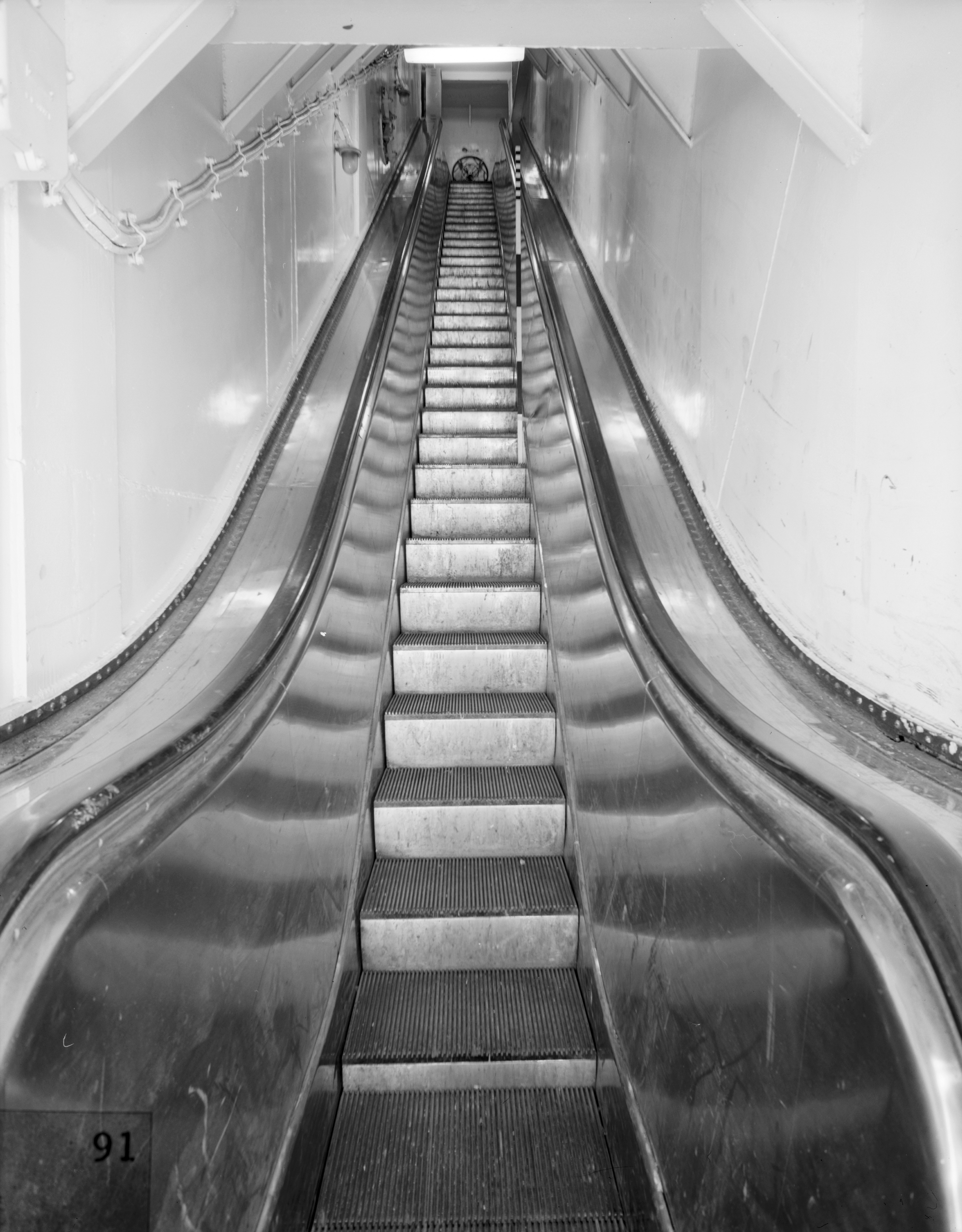 The motballed aircraft carrier USS Hornet (CVS-12) at the Puget Sound Naval Shipyard at Bremerton, Washington (USA), in August 1992: Hangar deck escalator - aft looking forward showing pilots escalator from hangar deck to flight deck.